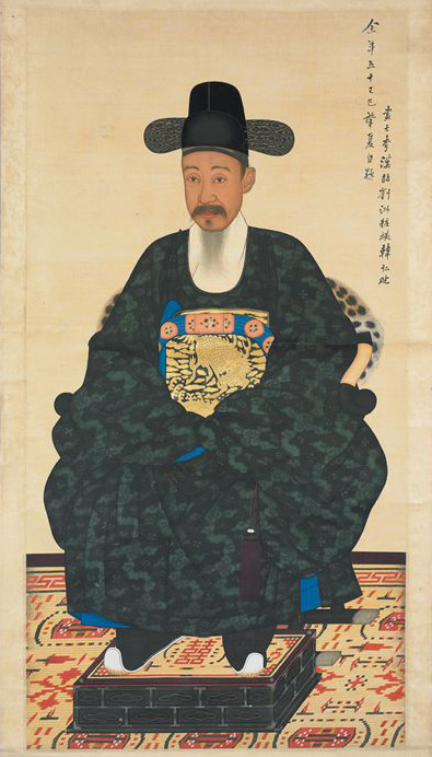 Portrait of Heungseon Daewongun, Yi Haeung wearing Heukdanryeongpo